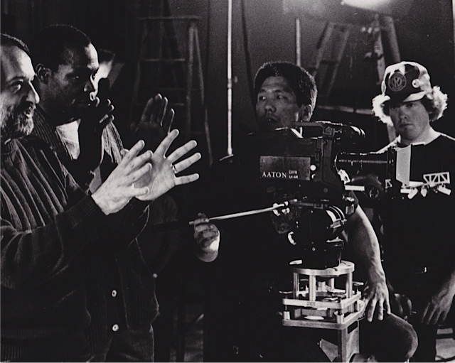 Zagone directing Danny Glover on the set of The Stand In (1985) with camera assistant Spenser Nakasano and grip Mike Graham